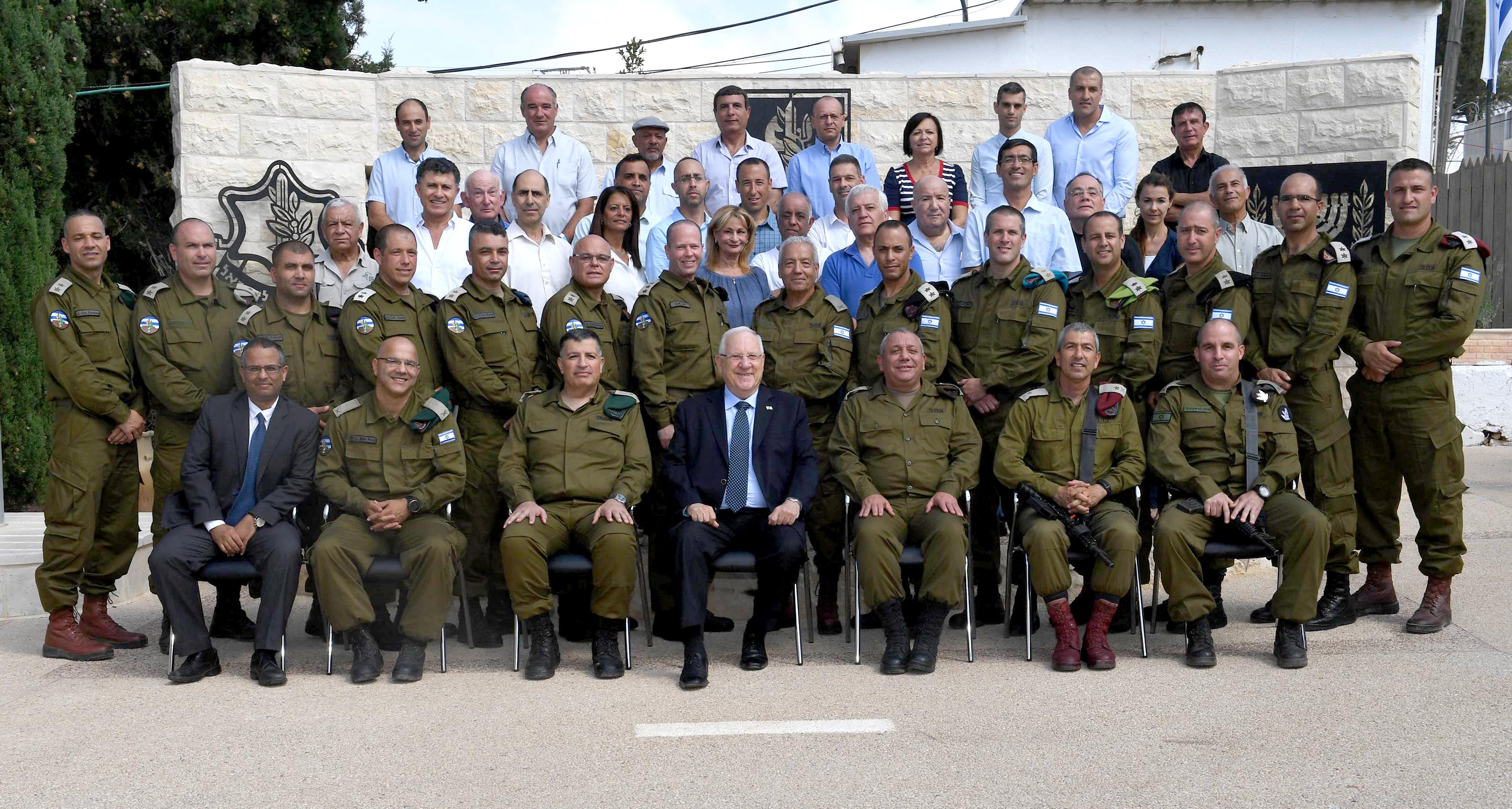 Reuven Rivlin visits the Civil Administration with Gadi Eizenkot and Yoav Mordechai.